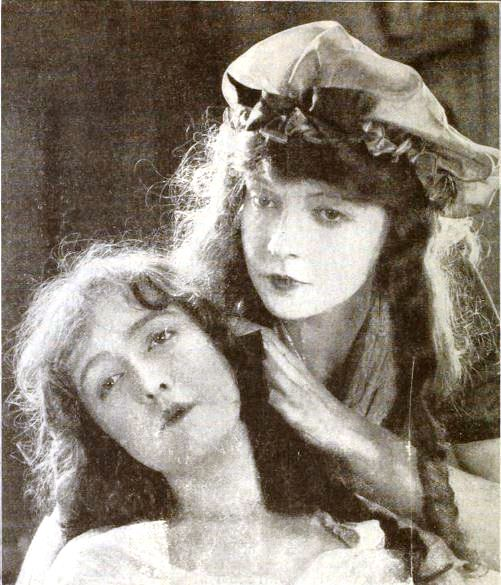 Still from the American film Orphans of the Storm with Dorothy and Lillian Gish, page 24 of the November 1921 Photoplay.